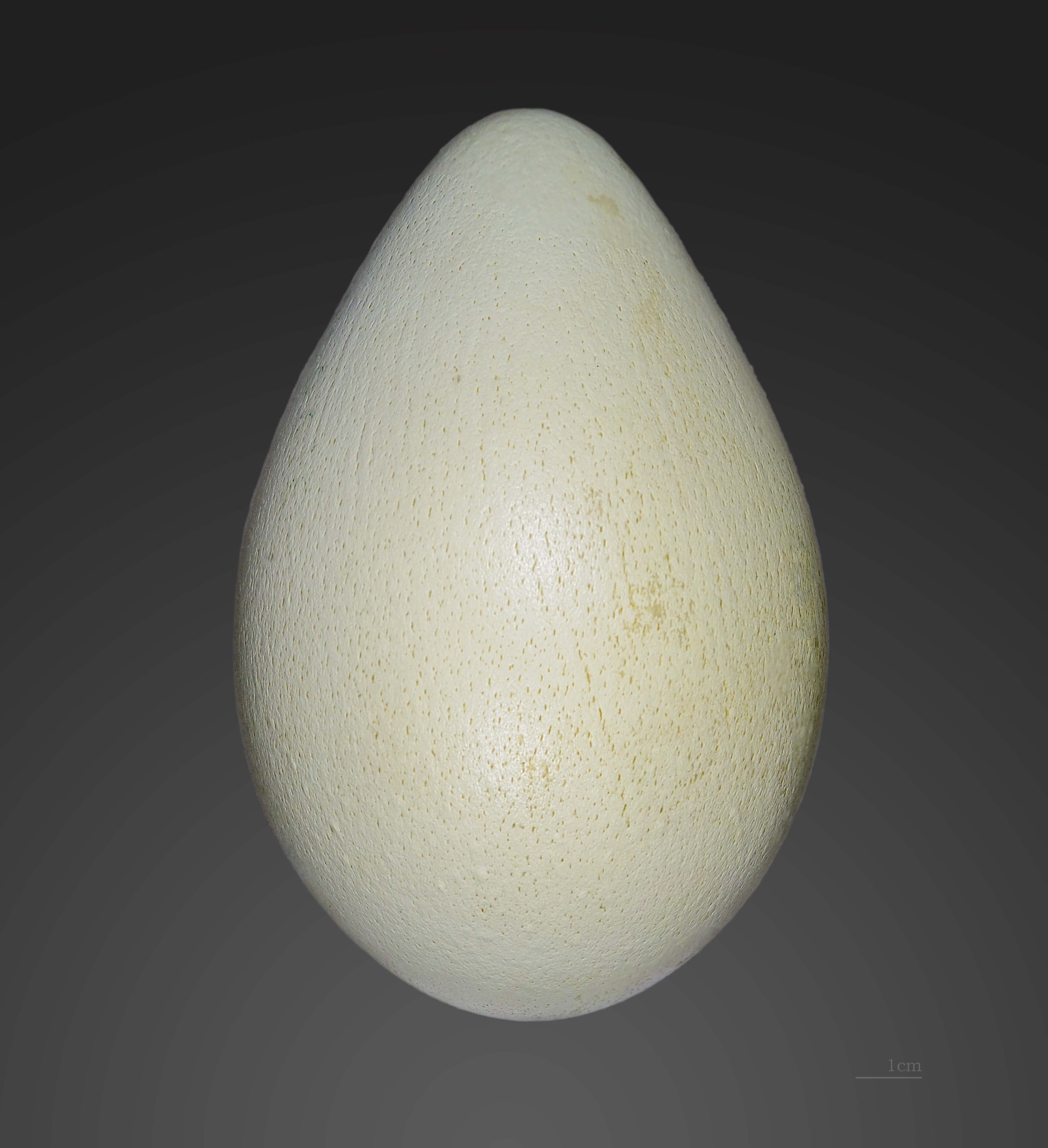 Egg of Emperor Penguin. Collection of Jacques Perrin de Brichambaut.